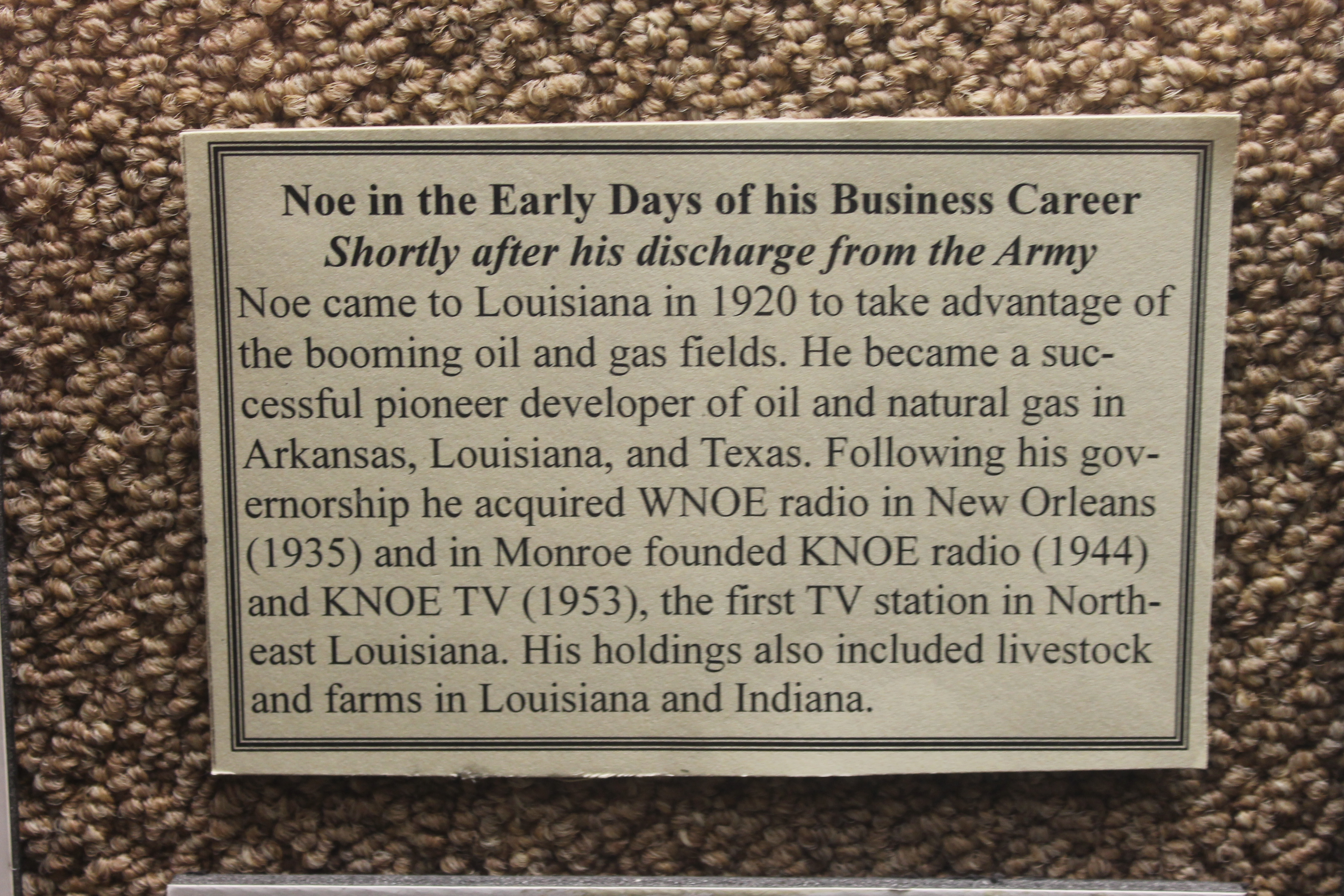 Noe biographical exhibit at Chennault Aviation and Military Museum of LA